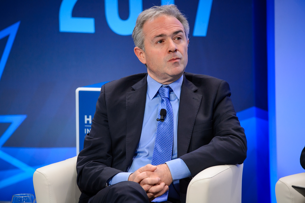 Edward Luce, Columnist and Commentator for the Financial Times, speaks on plenary session “Weaponizing Capital: One Belt, One Road, One Way.”